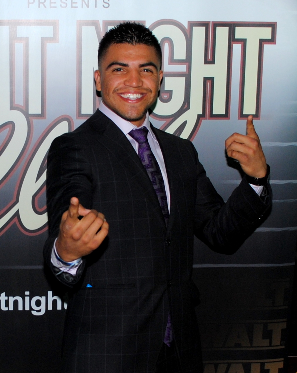 Victor Ortiz at the Fight Night Club event.